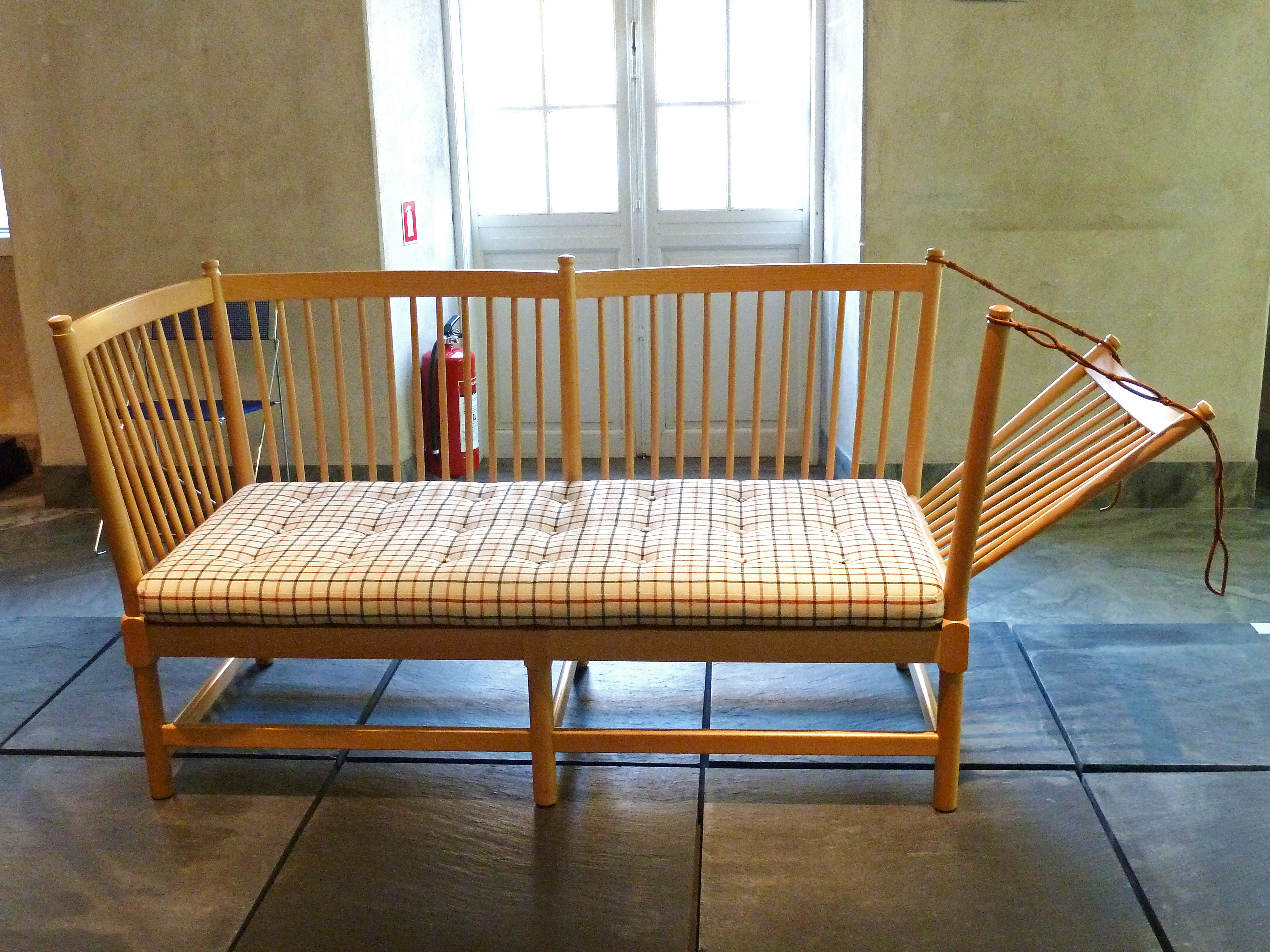 Børge Mogensen's The Spokeback Sofa exhibited in Designmuseum Danmark